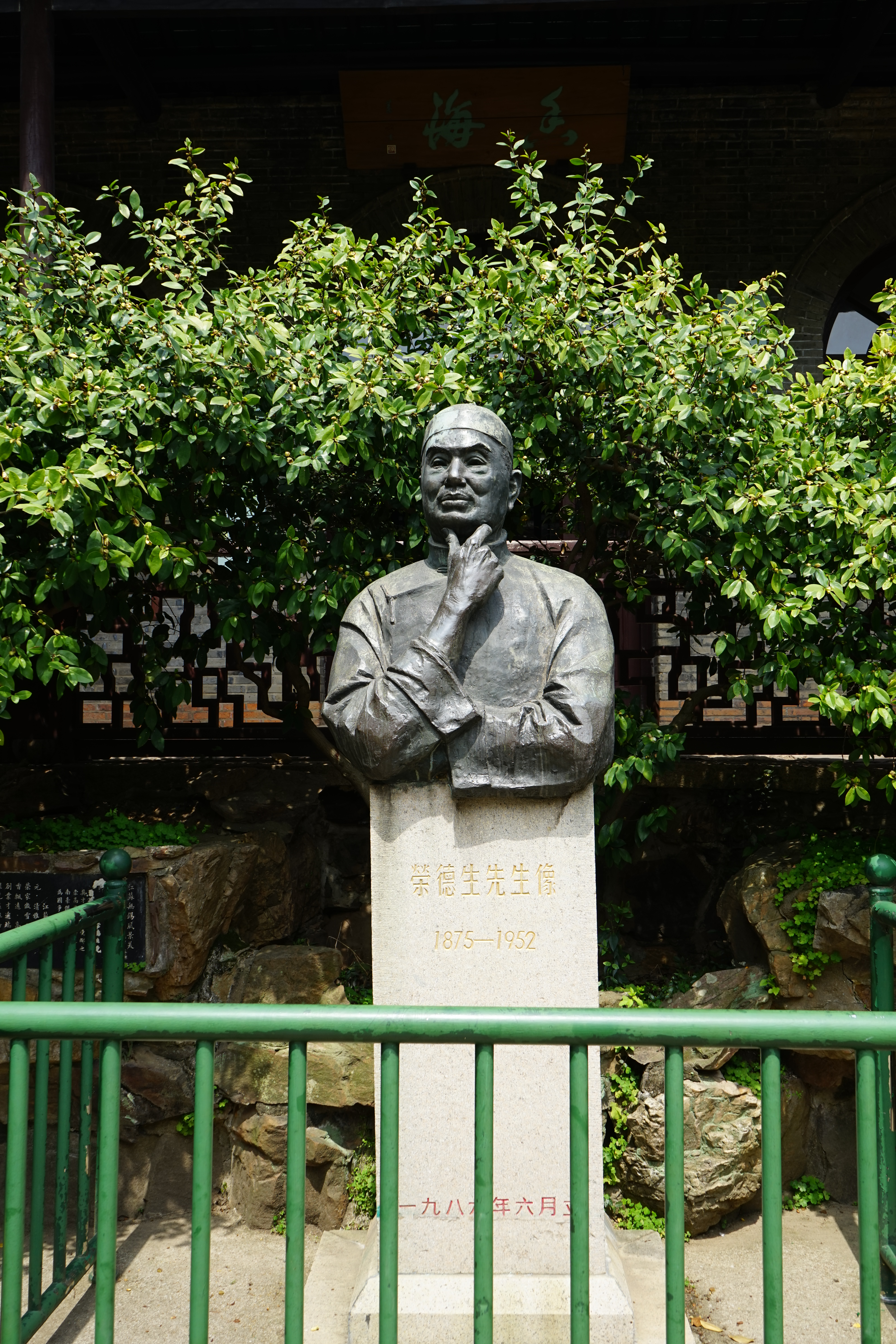 Statue of Rong Desheng, built in 1986